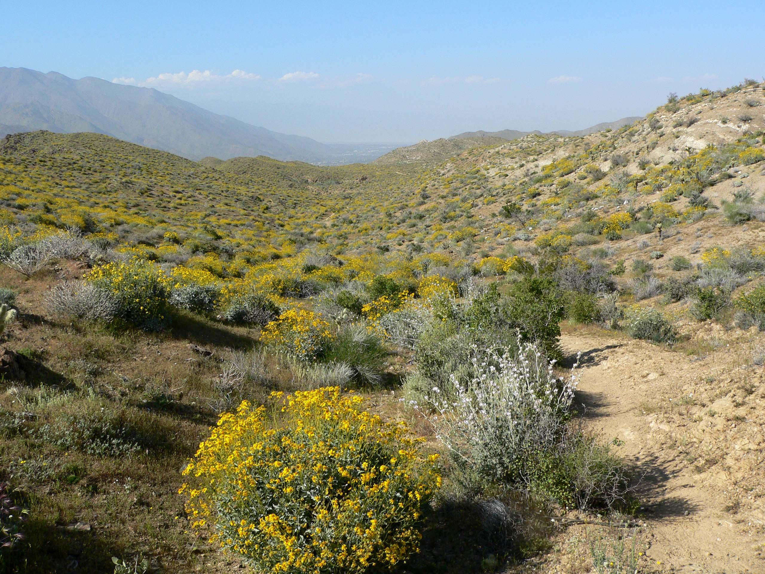 Photo of Palm Canyon, south of Palm Springs, California